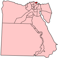 Map of Egypt showing Dimyat (Damietta) governorate. Made by User:Golbez based on PD maps.